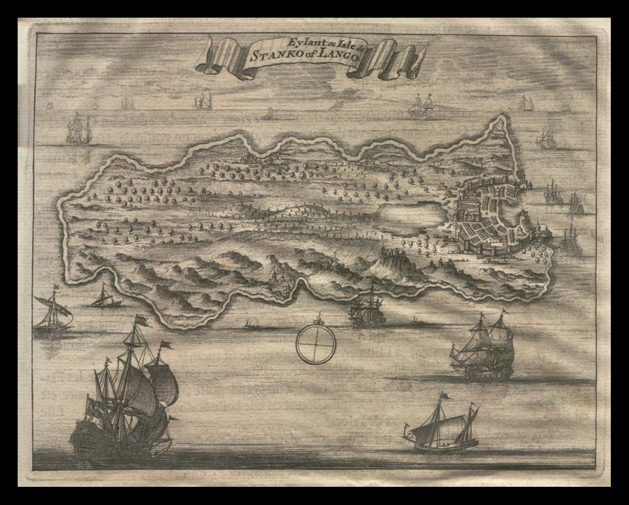 Antique Engraving Map - Cos , Kos - Olfert Dapper 1702